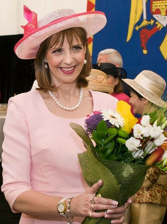 Princess Maria of Romania (1964) at the Elisabeta Palace Garden Party